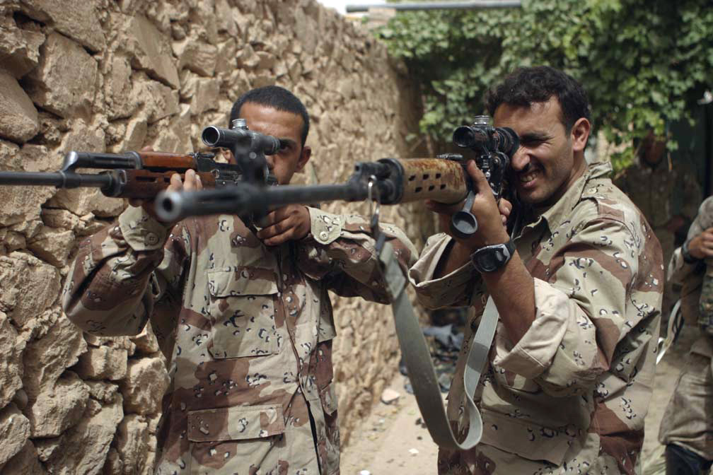 Iraqi Security Forces (ISF) soldiers sights through the scopes on a PSL designated marksman rifle, left, and a Dragunov sniper rifle, taken during offensive operations the city of Karabilah, Iraq, June 19, 2005, during Operation Spear. U.S. Marines assigned to the 2nd Marine Division are conducting counter-insurgency operations with Iraqi Security Forces to isolate and neutralize Anti-Iraqi Forces and to destroy insurgency leadership strong point. (U.S. Marine Corps photo by Cpl. Neil A. Sevelius/Released)